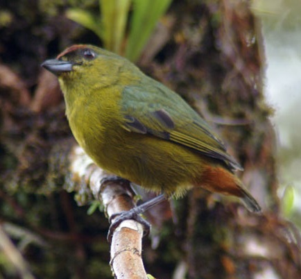 Olive-backed Euphonia, Gould's Euphonia